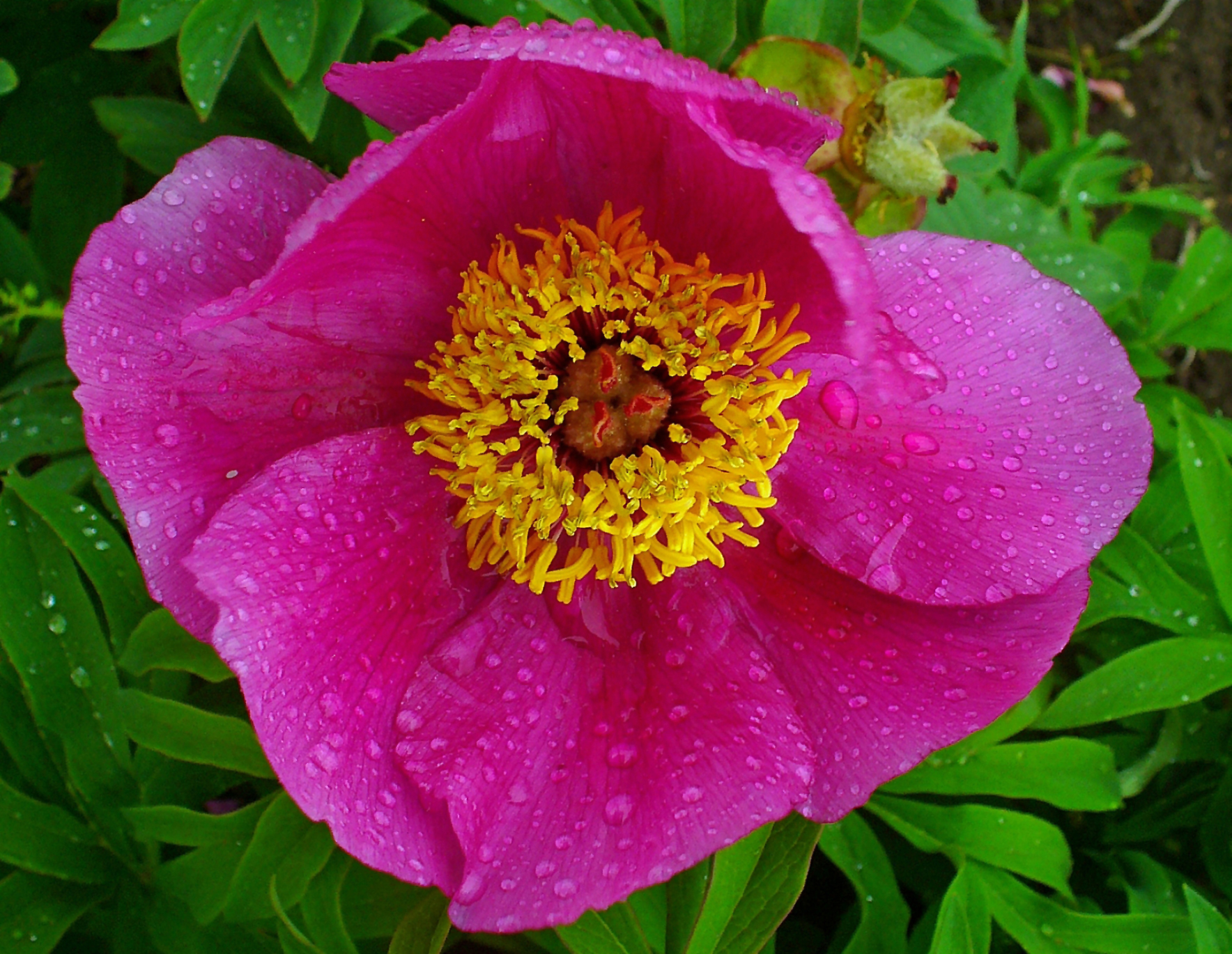 Paeonia officinalis, Paeoniaceae, European peony, Common peony, flower.